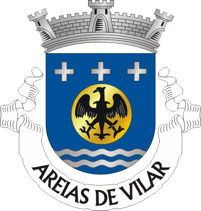 Crest of Areias de Vilar, a parish in the municipality of Barcelos (Portugal)